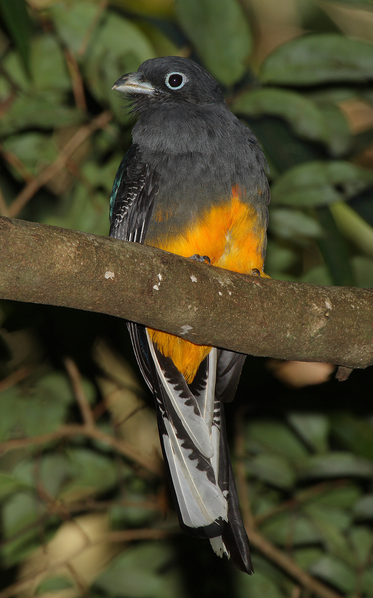 White-tailed Trogon Trogon chionurus (syn. Trogon viridis chionurus) -- Camino del Oleoducto, Parque Nacional Soberania, Panama -- 2008 January